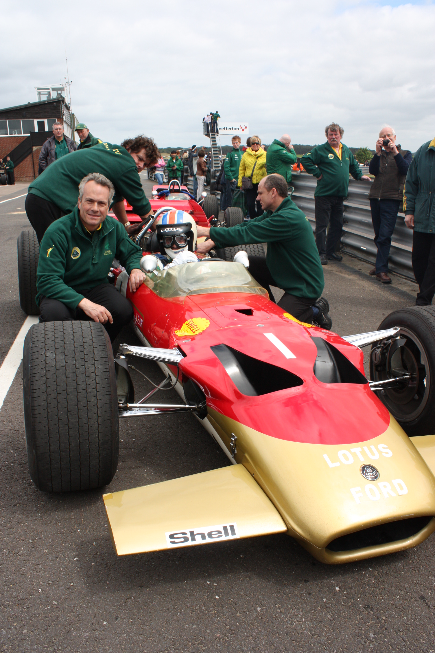 Mike Gascoyne driving classic Lotus in Snetterton. During the classic team lotus festival Mike Gascoyne fulfilled a boyhood ambition by getting behind the wheel of a Gold Leaf 49B that he so admired whilst at school not so far from the Hethel factory.